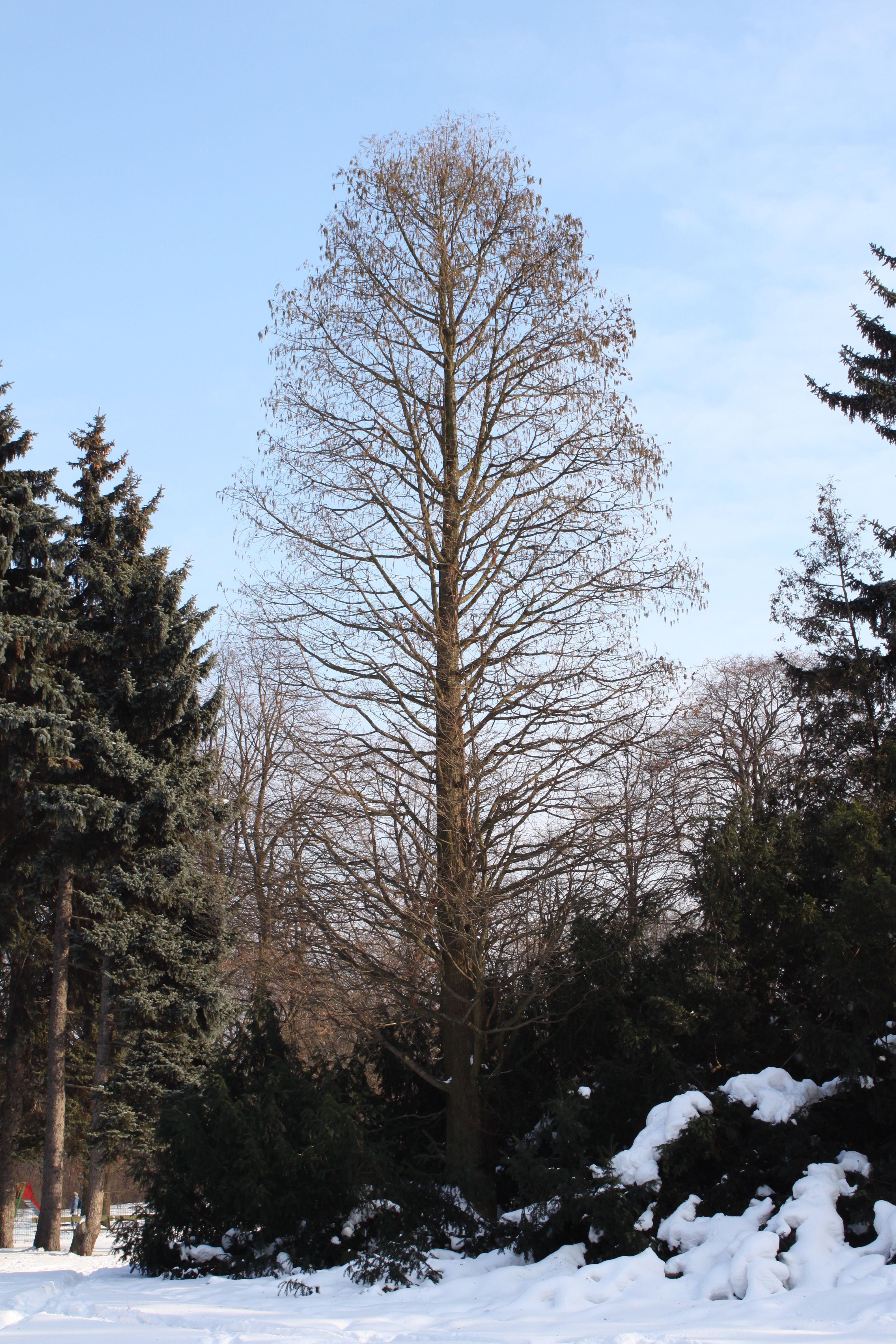 Taxodium distichum cv. 'Fastigiatum' in Park Skaryszewski in Warsaw